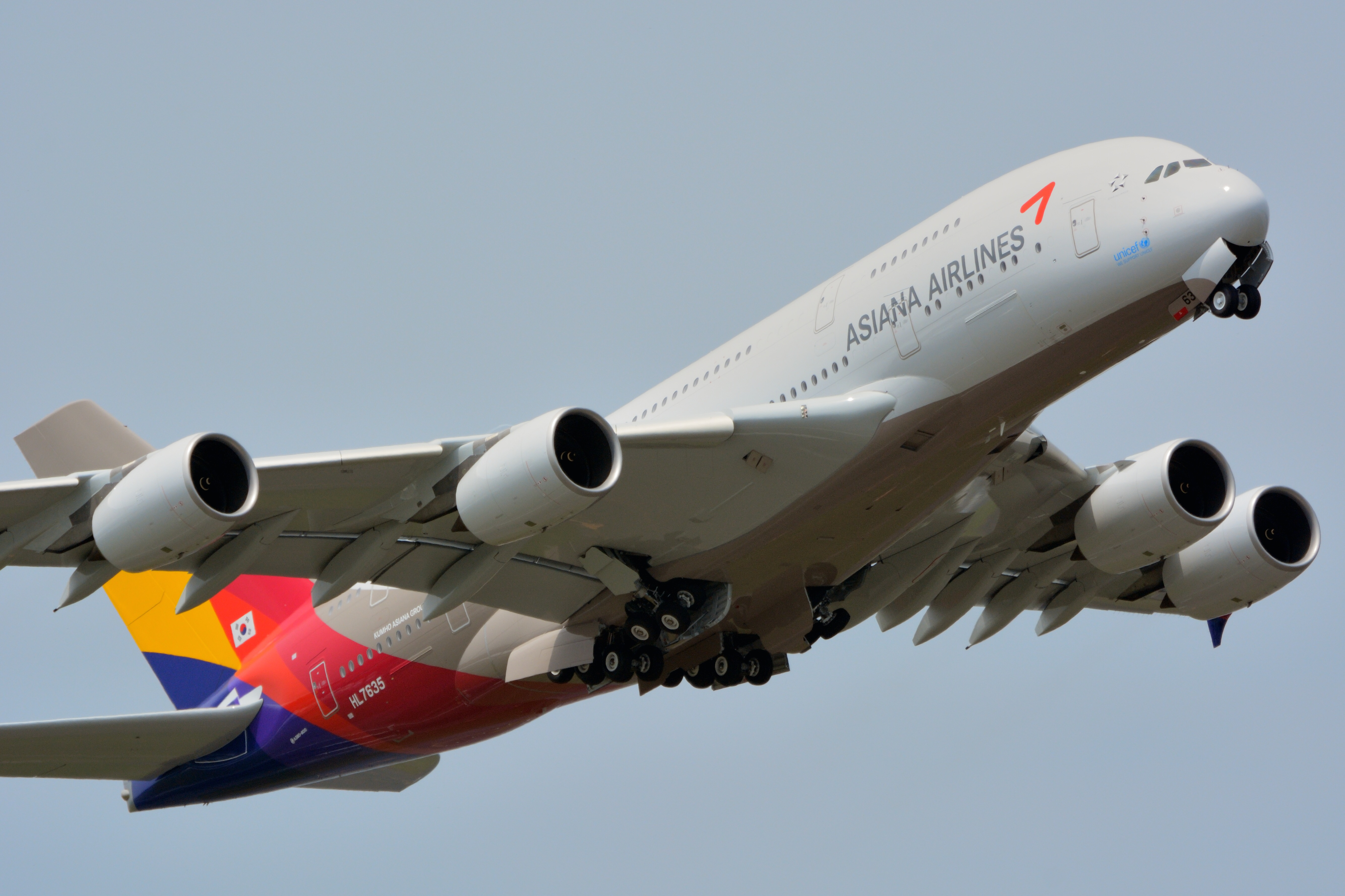 Asiana Airlines, Airbus A380-800 HL7635 NRT